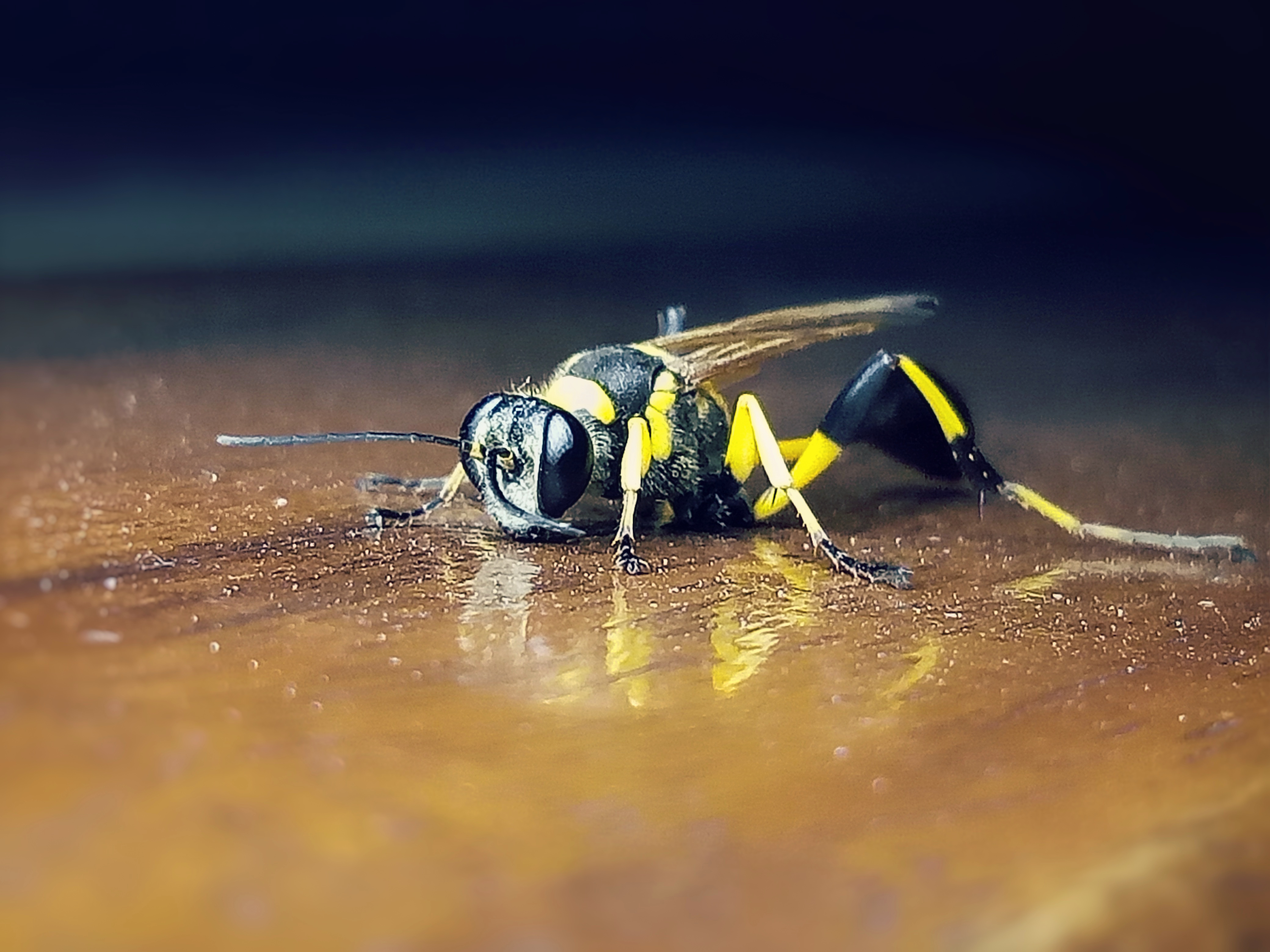 Black and yellow Mud Dauber.